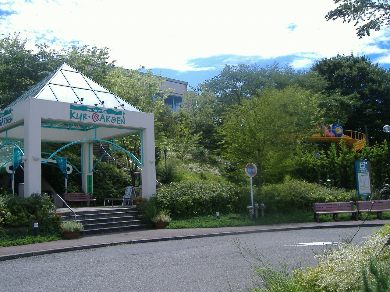 Tama-tech,Kur-garden,Entrance